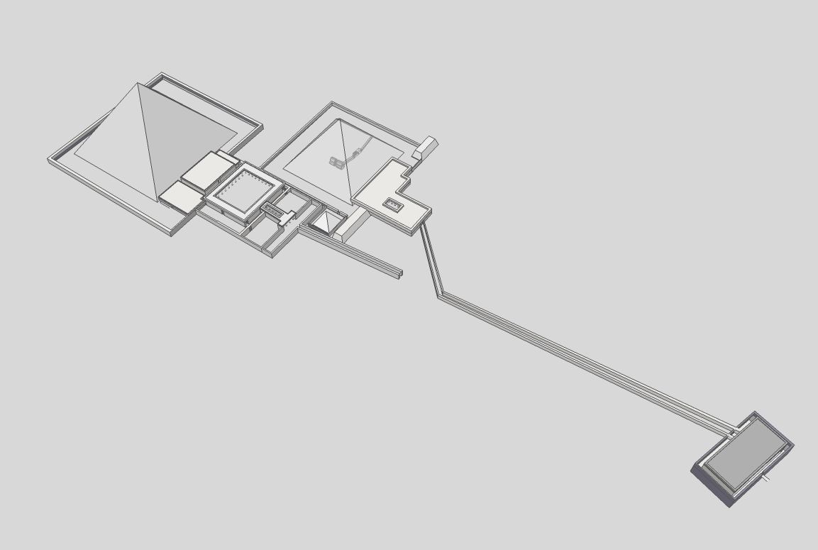 Views of the pyramids of Neferirkare and Niuserre taken from 3d models